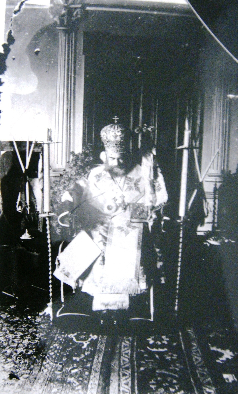 Metropolitan who is buried in the churchyard "Ss. Virgin. " Bitola, photographed around 1900 This media file is produced by Wikipedian in Residence in Category:Wikipedian in Residence at DARM in 2016.